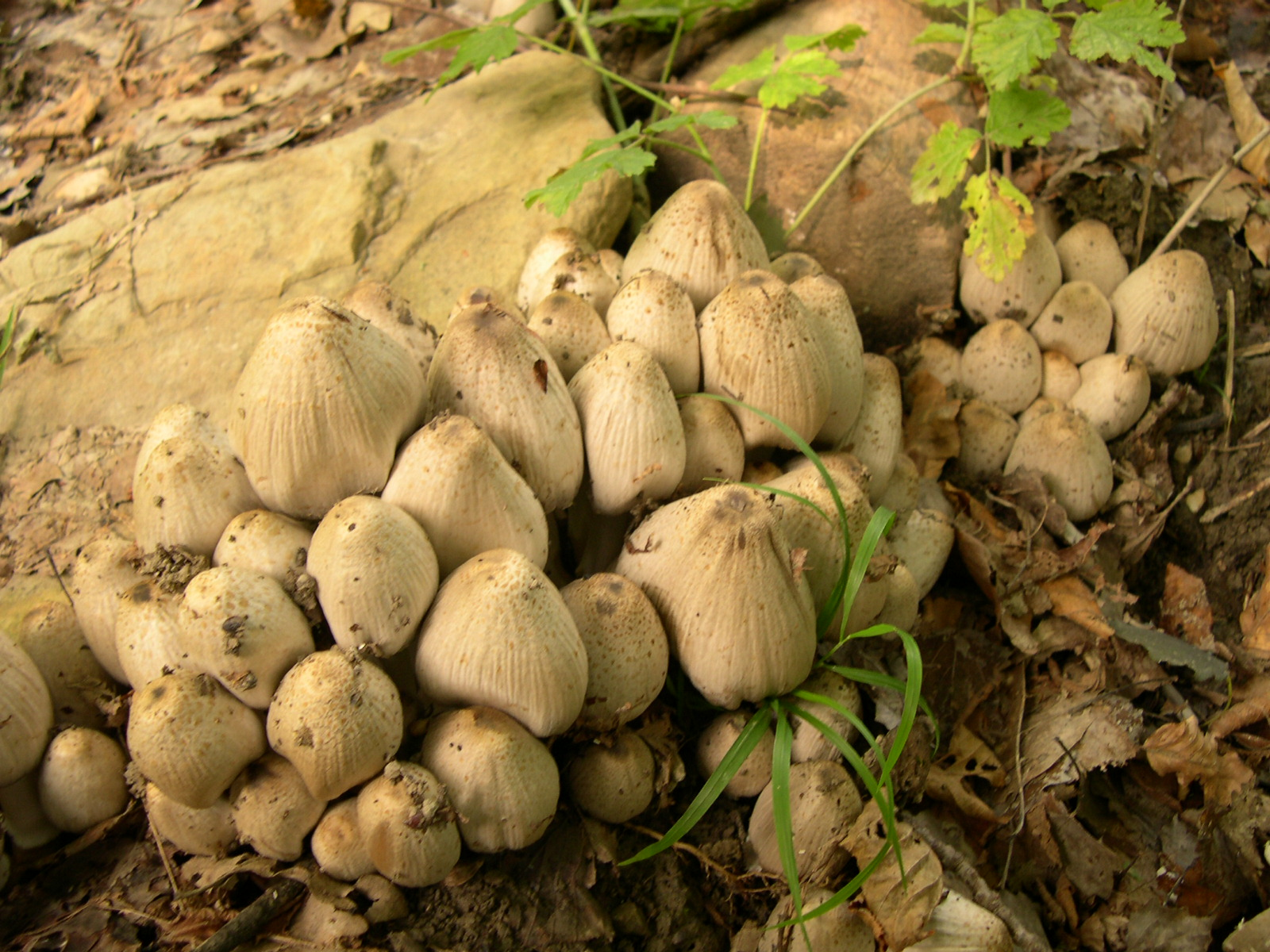 Coprinopsis atramentaria (Bull.) Fr. 1838 - synonimous Agaricus atramentarius Bull. Piacenza's mountains - September 2005 - by archenzo